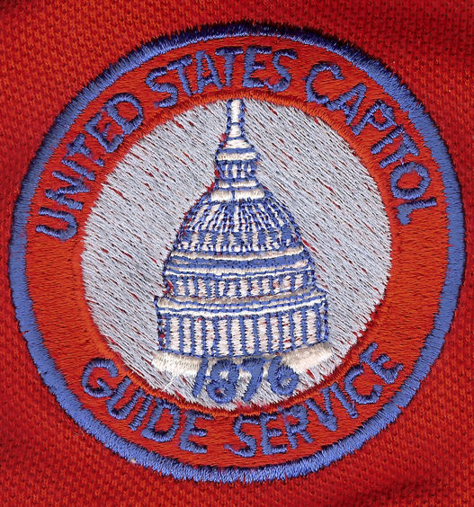 Official patch of the United States Capitol Guide Service